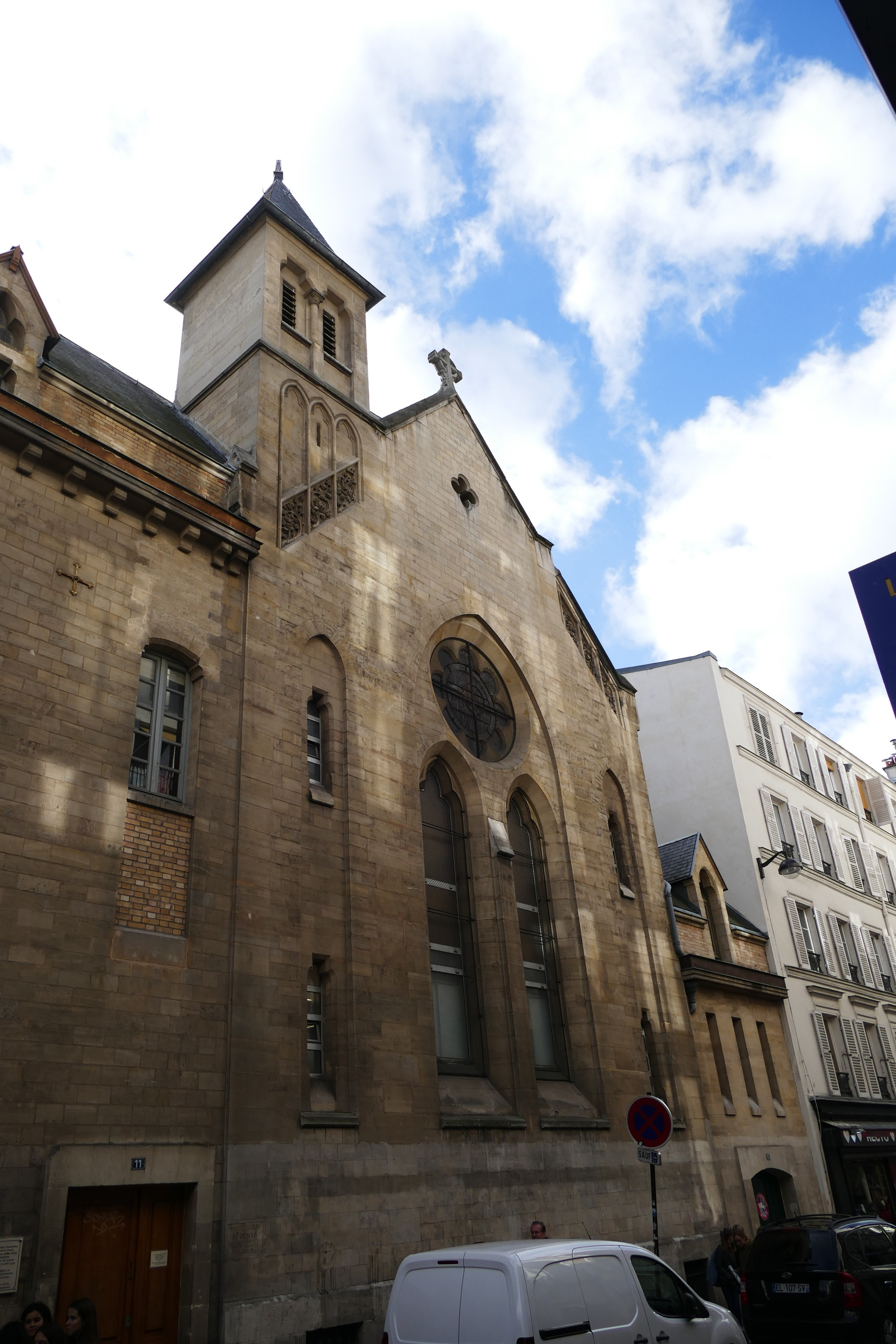 Saint-Denis' chapel in Paris (Île-de-France, France).